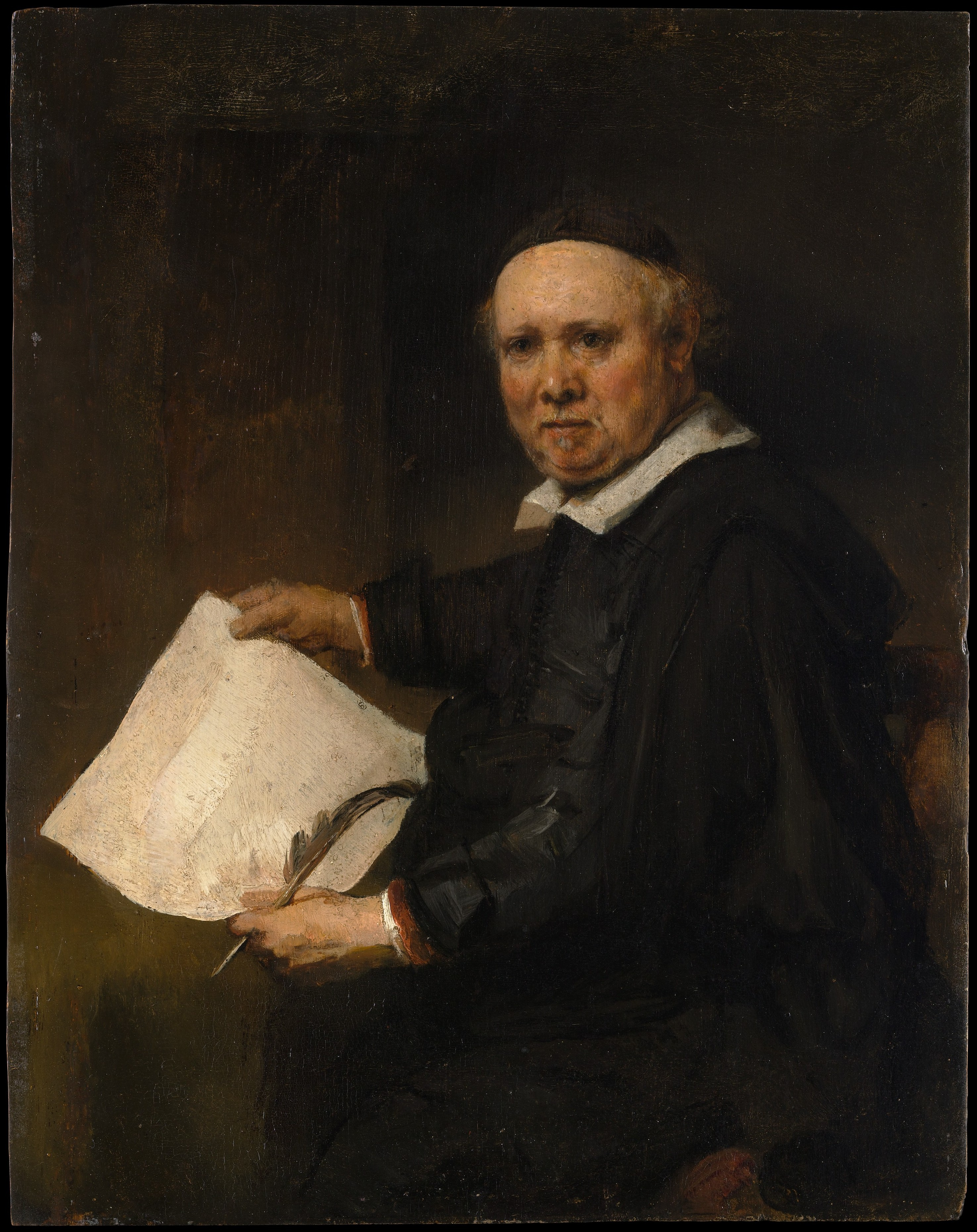 Preparatory Oil Sketch for the Etched Portrait of Lieven Willemsz van Coppenol